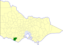 Location of the former Shire of Heytesbury within Victoria.